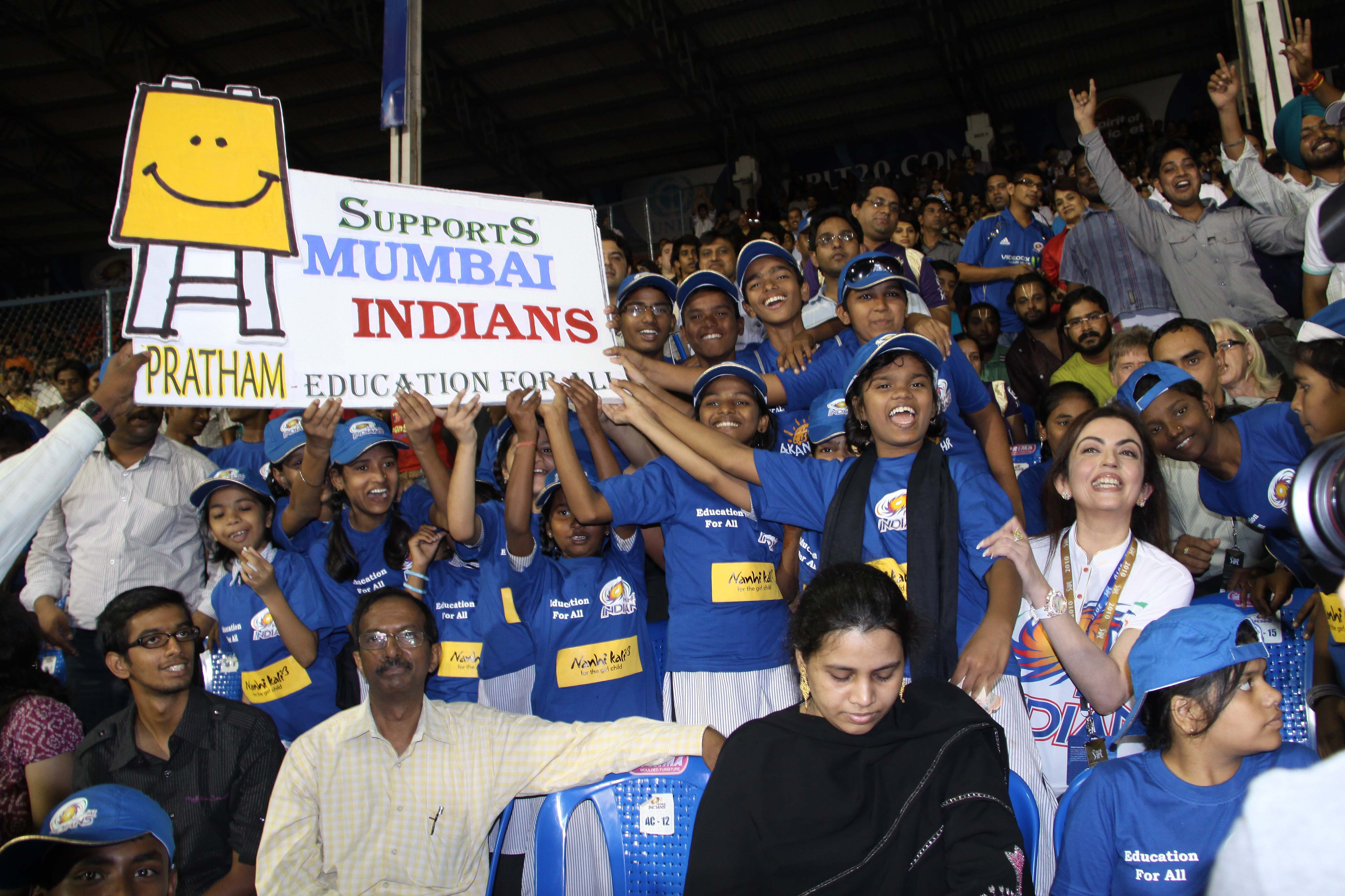 Mumbai Indians Supports 'Education for All'